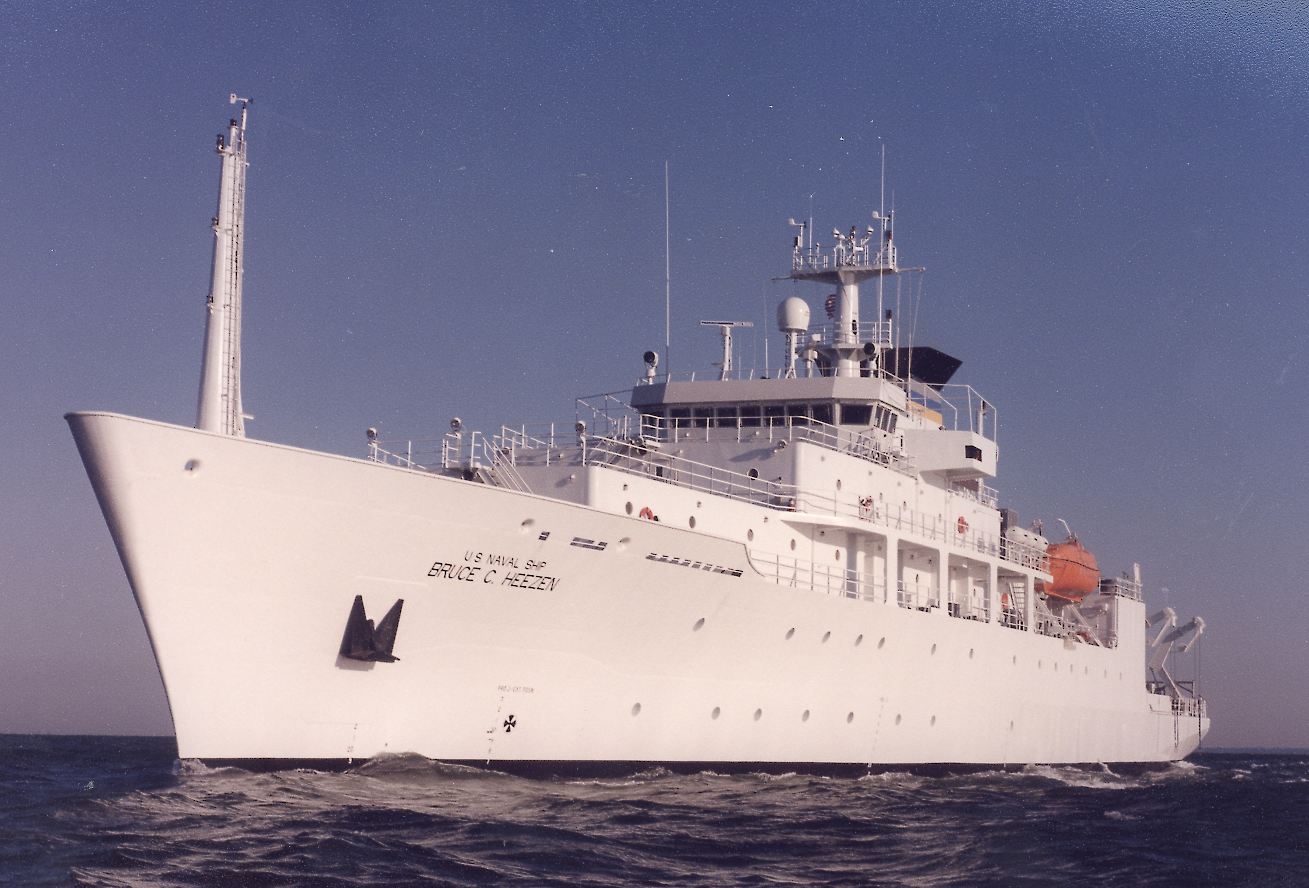 USNS Bruce C. Heezen (T-AGS-64). Official photograph from the Military Sealift Command website.